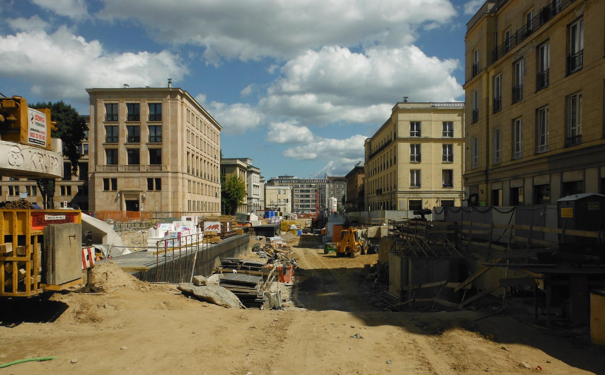 Nowy Świat metro station (under construction) in Warsaw (15th of August 2013).